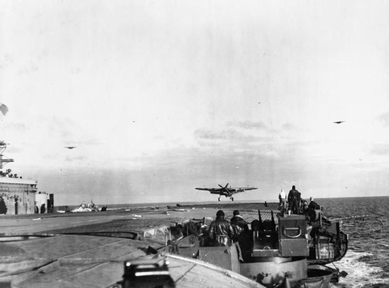 The Royal Navy during the Second World War- Operation Tungsten March-april 1944 A Barracuda dive bomber landing on HMS VICTORIOUS during Operation TUNGSTEN. HMS BELFAST is seen on the starboard quarter of HMS VICTORIOUS.